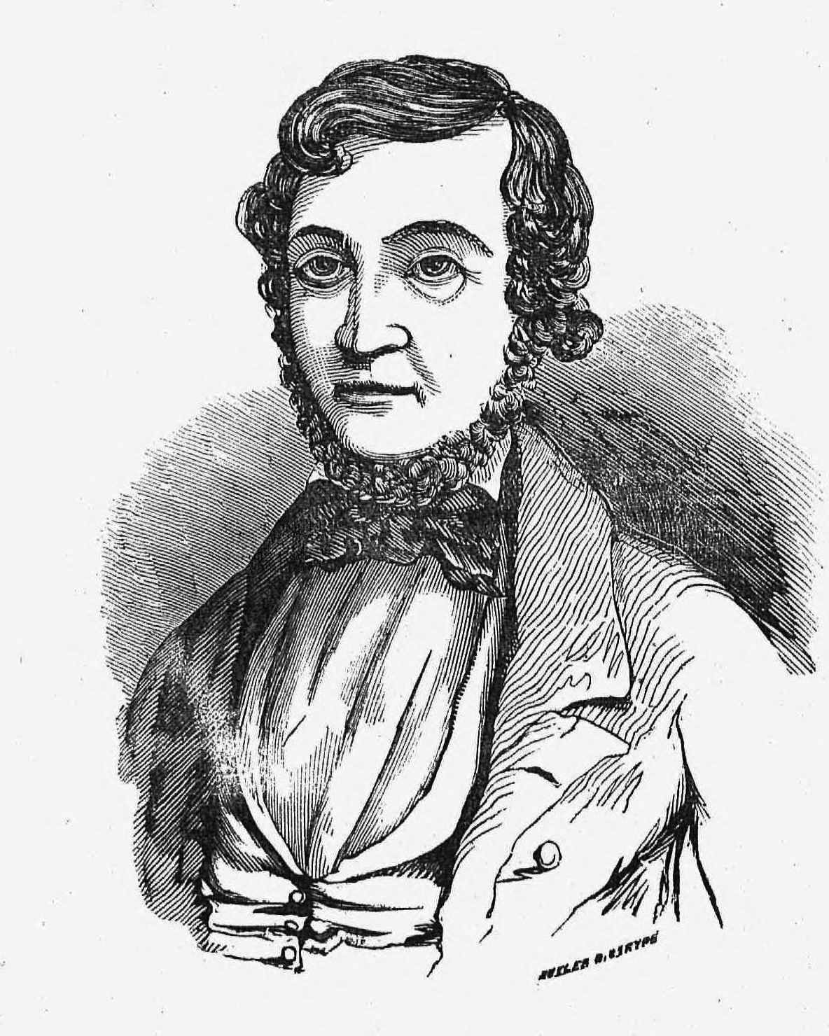 A portrait engraving of Monroe Edwards from the frontispiece of Life and Adventures of the Accomplished Forger and Swindler, Colonel Monroe Edwards, published by H. Long & Brother in New York 1848